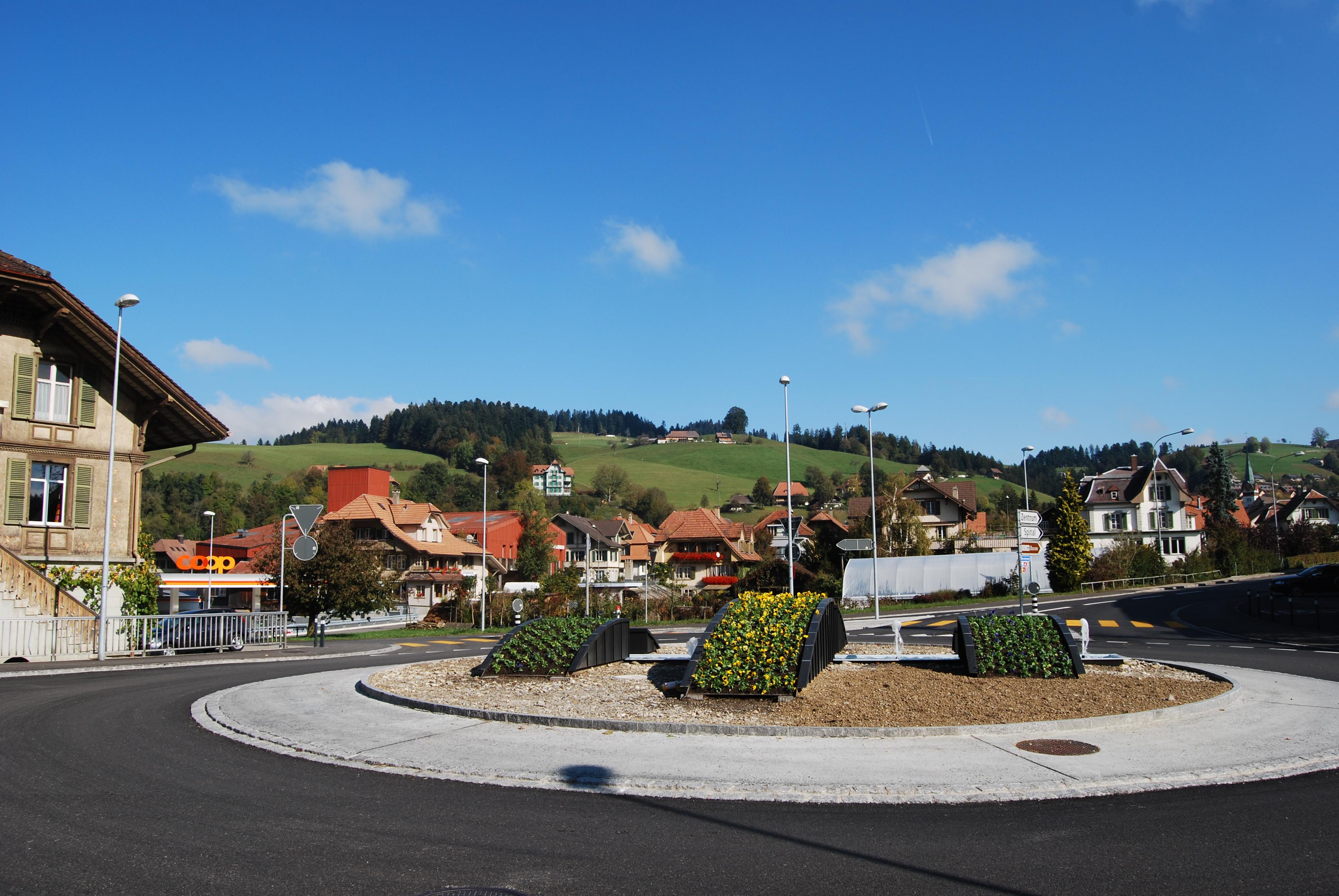 Langnau im Emmental, canton of Bern, SwitzerlandEsperanto: Langnau en Emme-Valo, Kantono Berno, Svislando